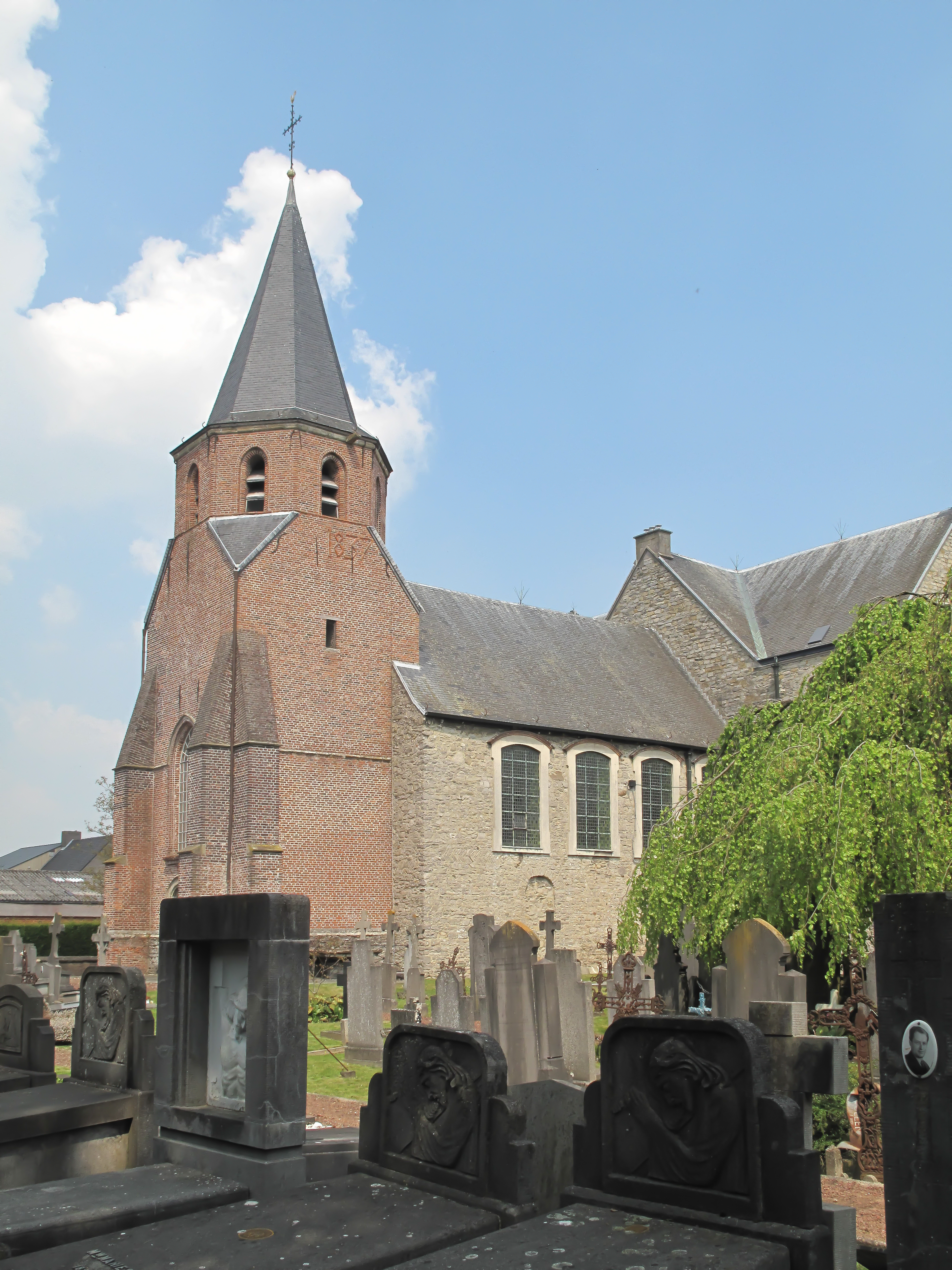 Nederename, church: de Sint Vedastuskerk